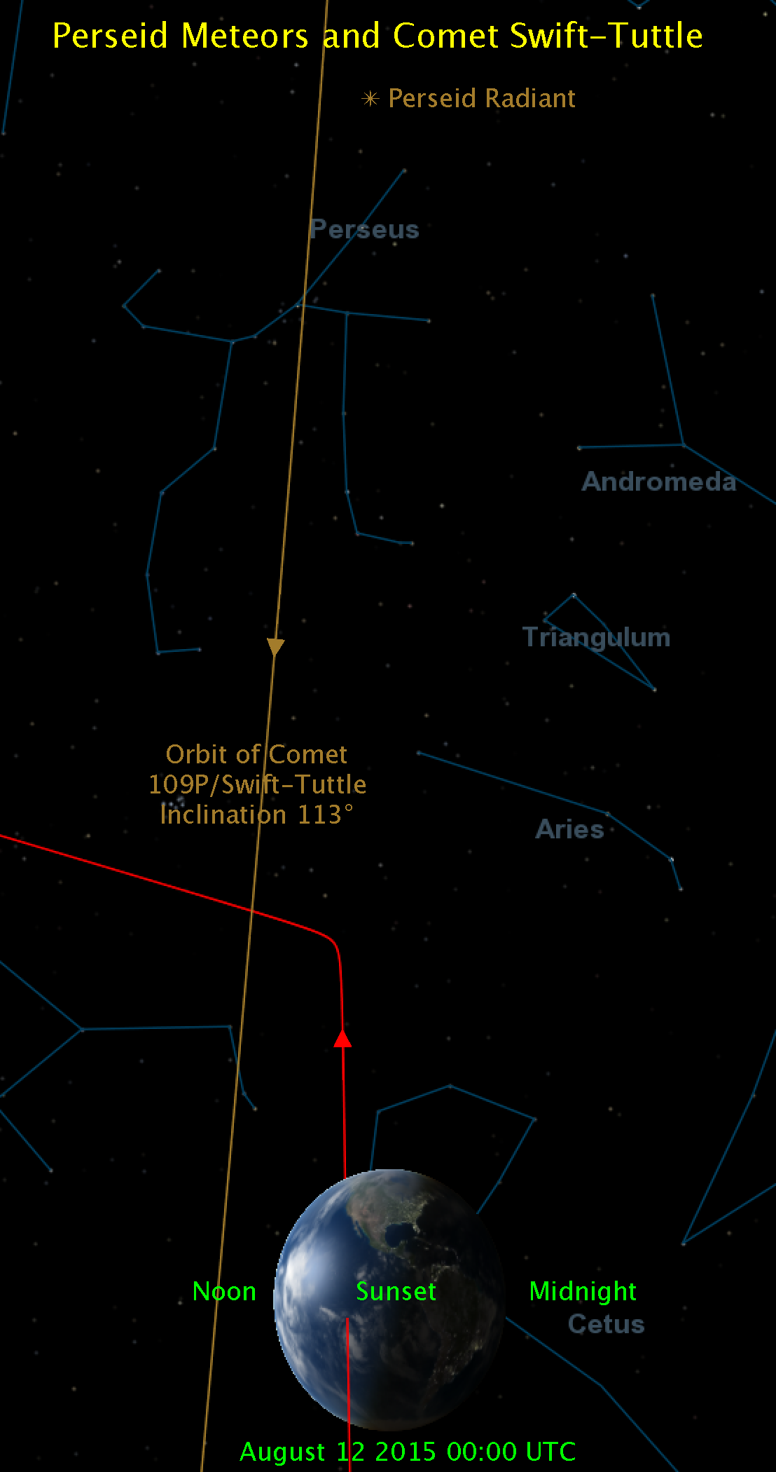 A near-Earth perspective of its orbit (red), the radiant of the Perseid meteor shower, and the orbit of the shower’s parent comet, 109P/Swift-Tuttle, to show their spatial relationships on August 12 00:00 UTC. The Perseid meteor shower is fairly wide (~0.1 AU), filling the frame. Note: the bend in the Earth’s orbit is due to projection distortion.